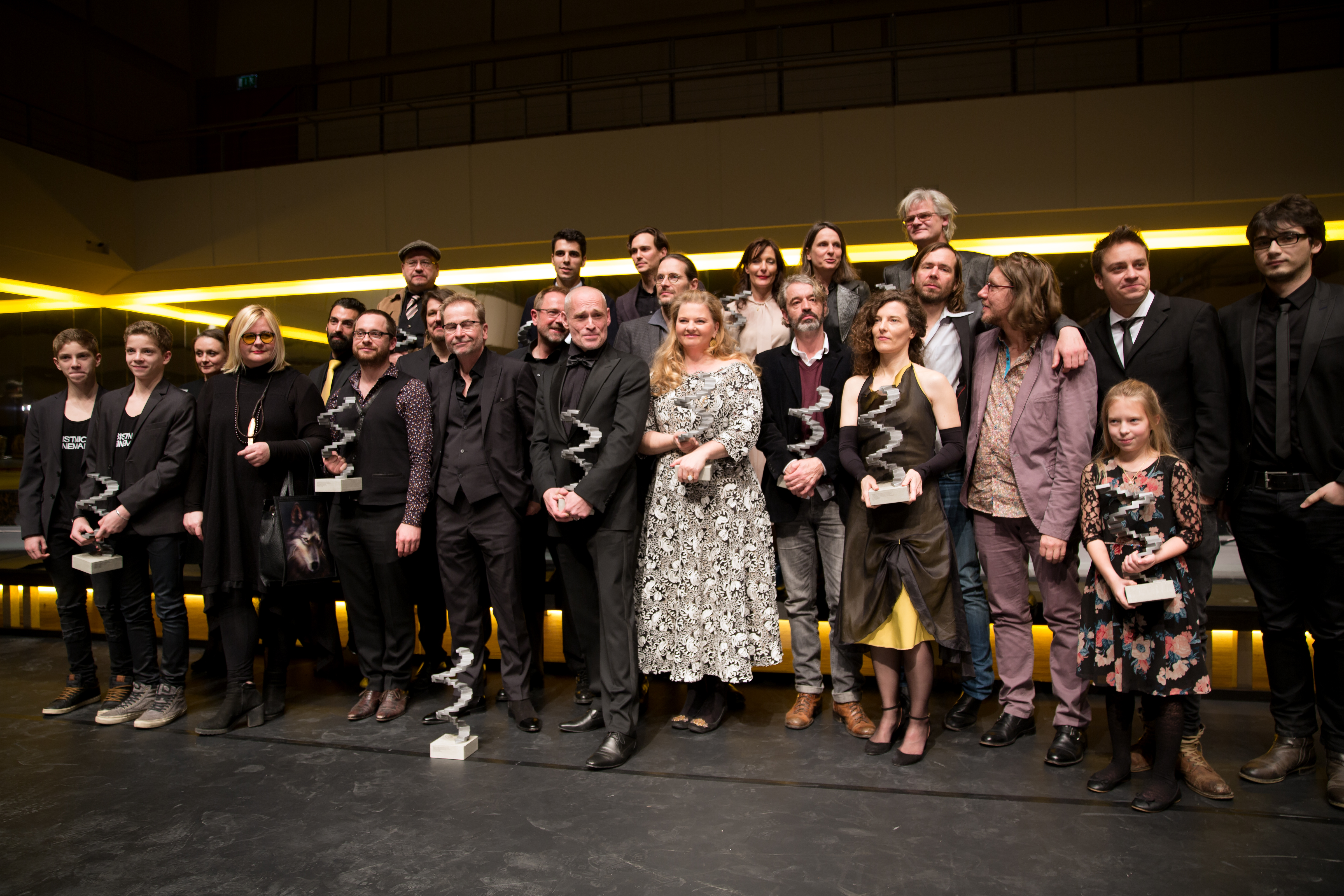 Awardees of the Austrian Film Awards 2016 (Grafenegg, Austria).